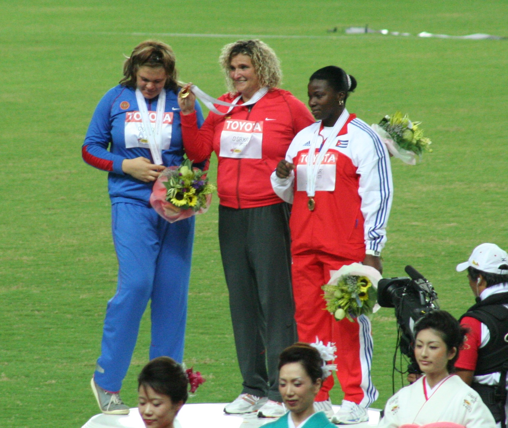 World Athletics Championships 2007 in Osaka - victory ceremony for women's discus throwing. Darya Pishchalnikova, Franka Dietzsch, Yarelis Barrios